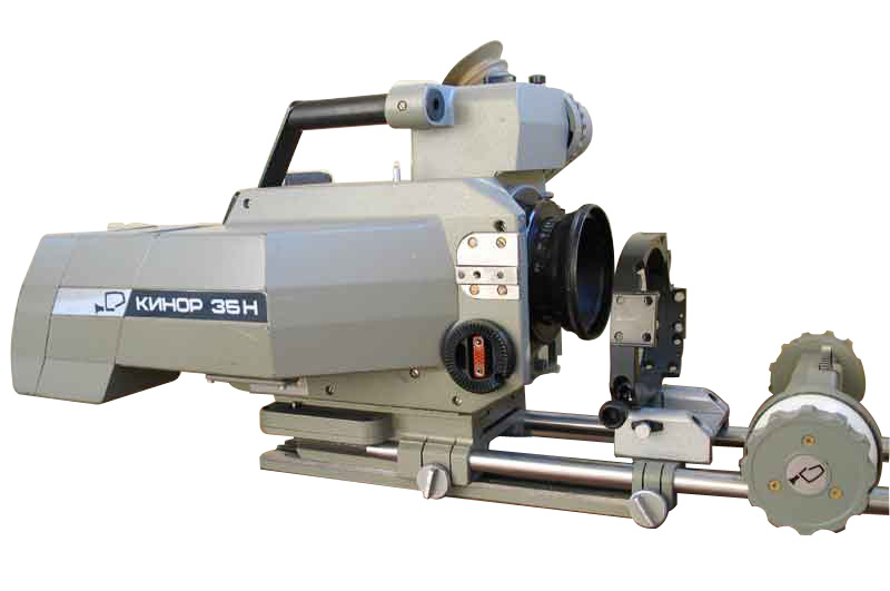 Soviet 35-mm professional movie camera Kinor-35H without cassette.